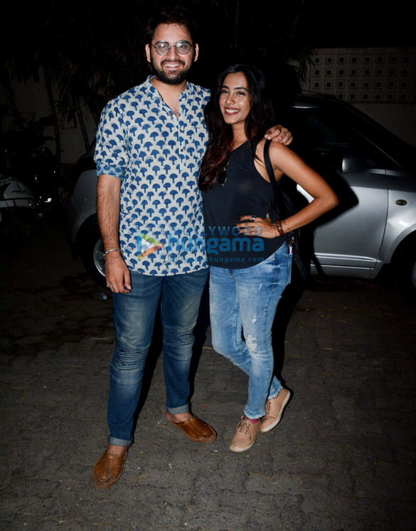 Siddharth Chandekar and Sakhi Gokhale at 'Faster Fene' screening